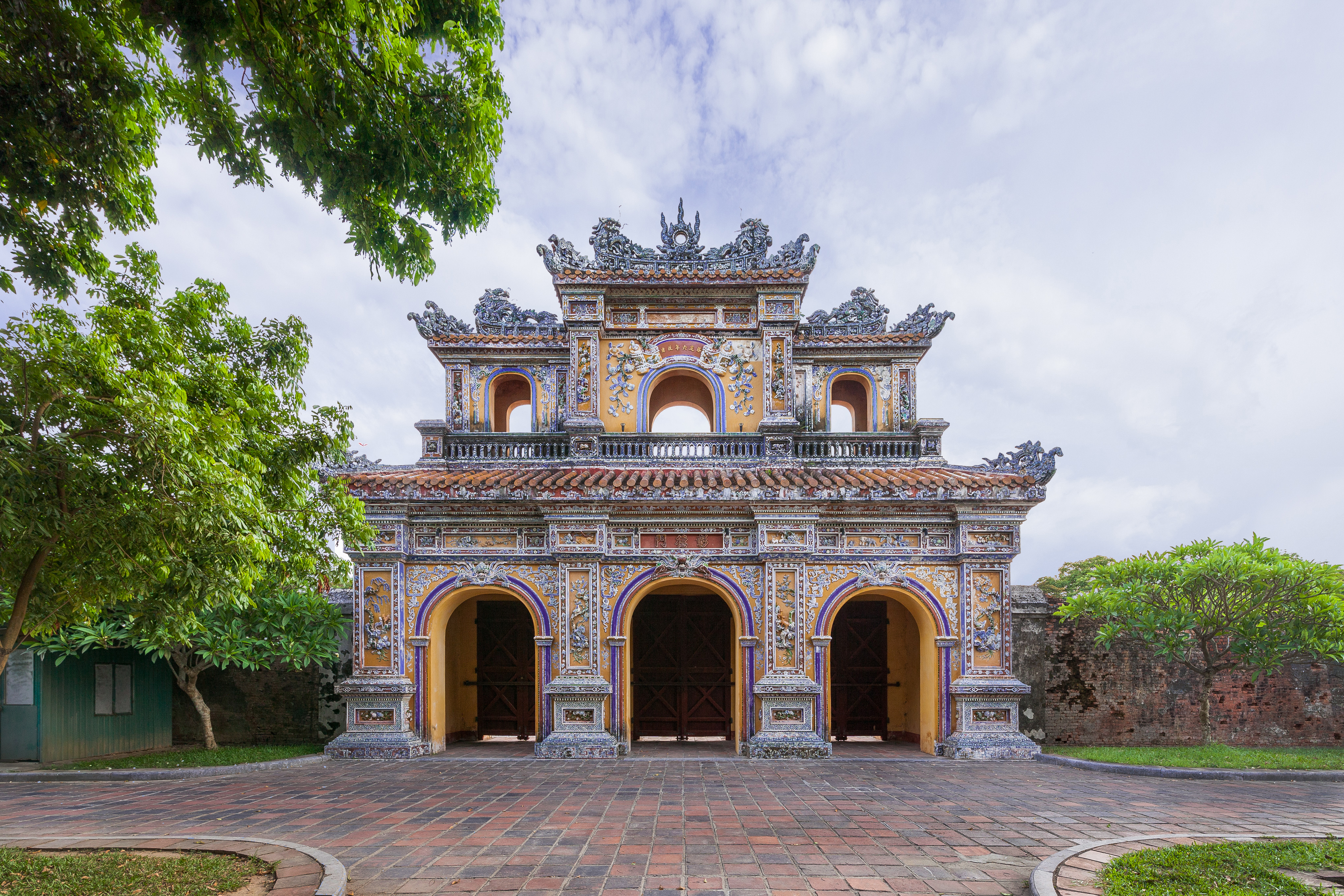 Gate of Manifest Benevolence (Cửa Hiển Nhơn), Imperial City, Huế.